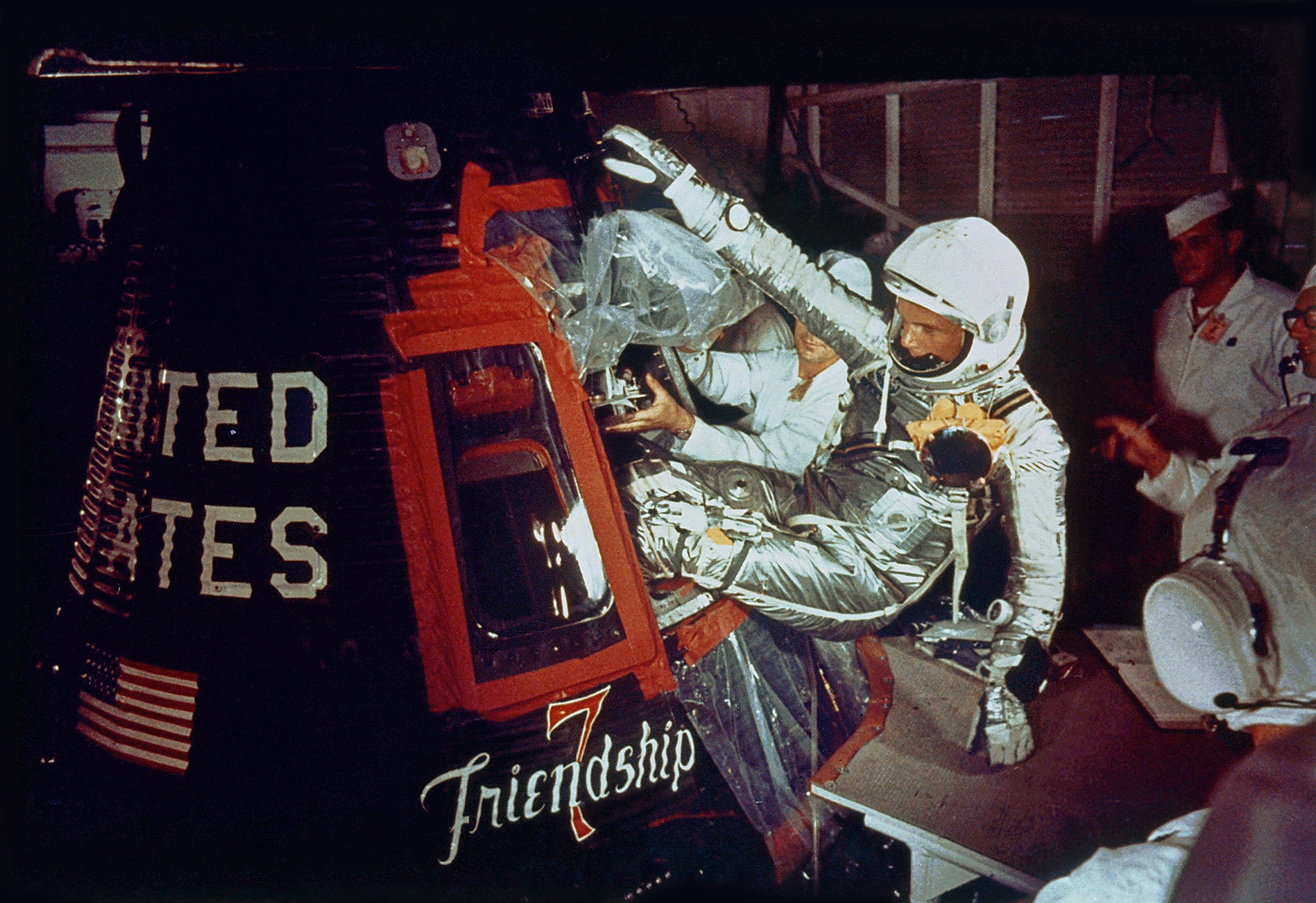 Overall view of astronaut John Glenn, Jr., as he enters into the spacecraft Friendship 7 prior to MA-6 launch operations at Launch Complex 14. Astronaut Glenn is entering his spacecraft to begin the first American manned Earth orbital mission.